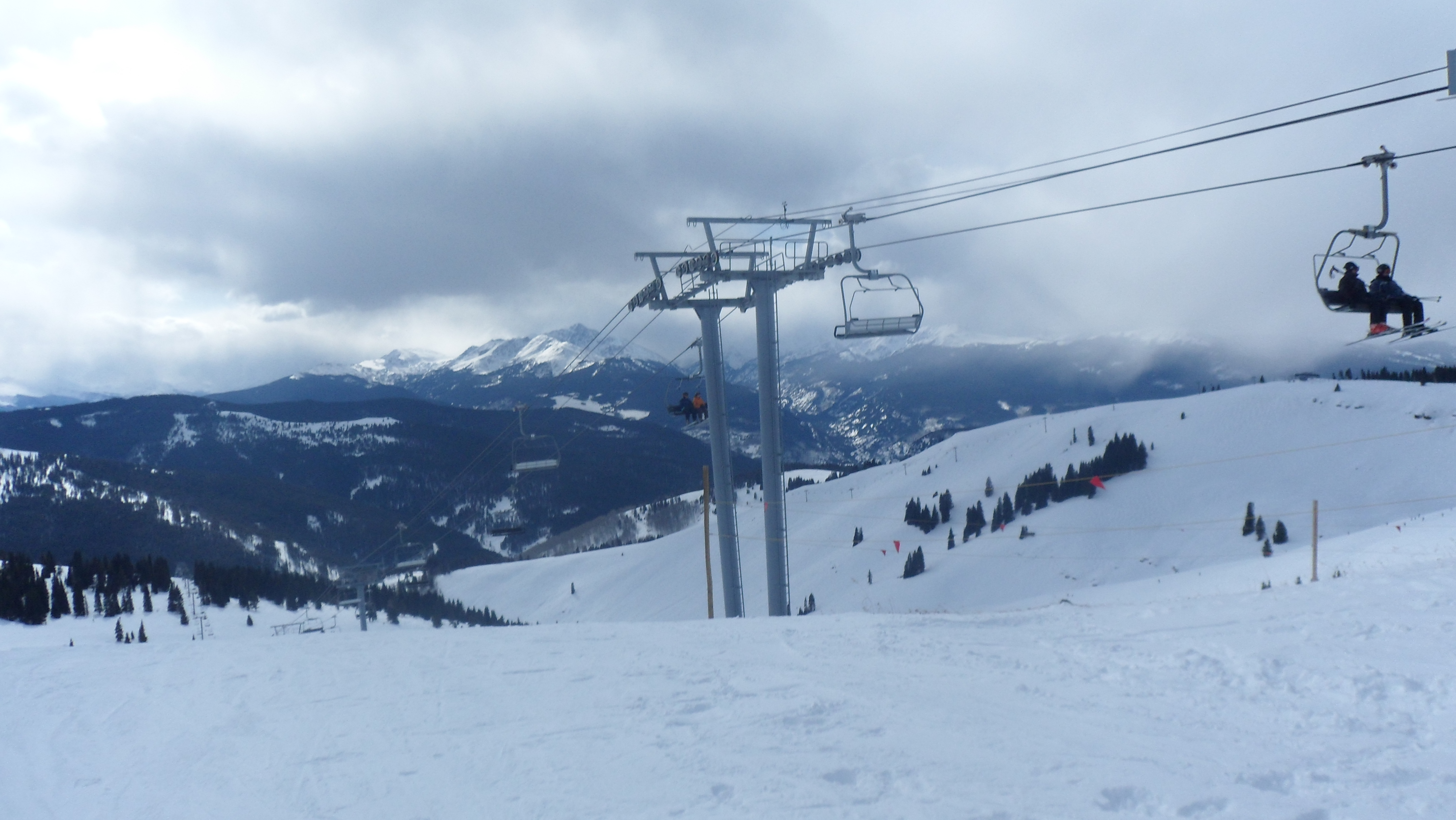 Holy Cross From Vail Taken by DReifGalaxyM31 (talk) 03:04, 19 September 2012 (UTC), March 2012